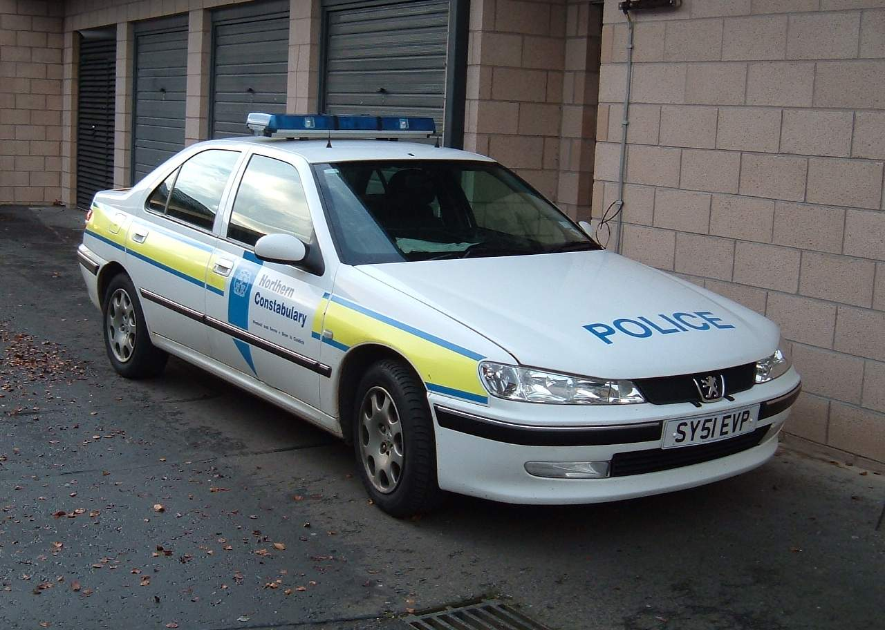 Now that the force is sadly riding off into the sunset (it becomes the Highlands & Islands Area of the Police Service of Scotland on 1st April 2013) I have been wallowing in nostalgia. Looking back over my photos, here's a few I had not previously uploaded. These vehicles will have all long gone to the great Auction Mart. Very hard to believe it is 8 years (some more than that) since I took these shots. I think this was the Fort Augustus car, looking like new although by now it had seen a fair bit of service and the mileage would have been considerable. Ft Aug section by then covered from Drumnadrochit down Loch Ness to Spean Bridge on the A82 near Fort William, a considerable expanse of area on the east (south) side of Loch Ness up as far as Dores, and also west on the A87 and A887 to their junction near Cluanie Dam. As I recall the establishment was 1 Sgt and 3 PCs.